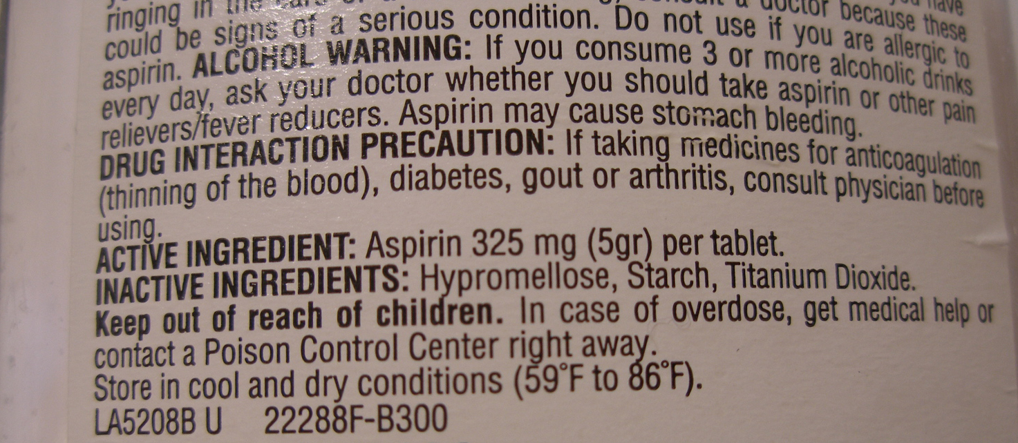 The back of an aspirin bottle. It shows that the common dosage is 5 grains (325 mg). The bottle was purchased in 2007.